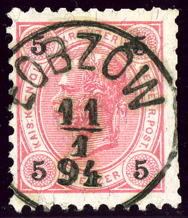 Austrian KK 5 kreuzer stamp, cancelled in 1894 at LOBZOW (Galicia, Poland)